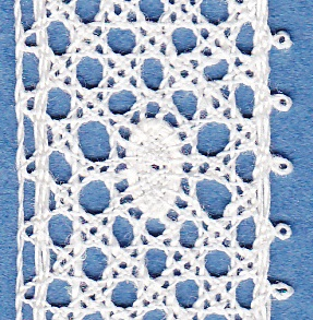 a traditional exercise of Flanders lace, the motive is called a bean